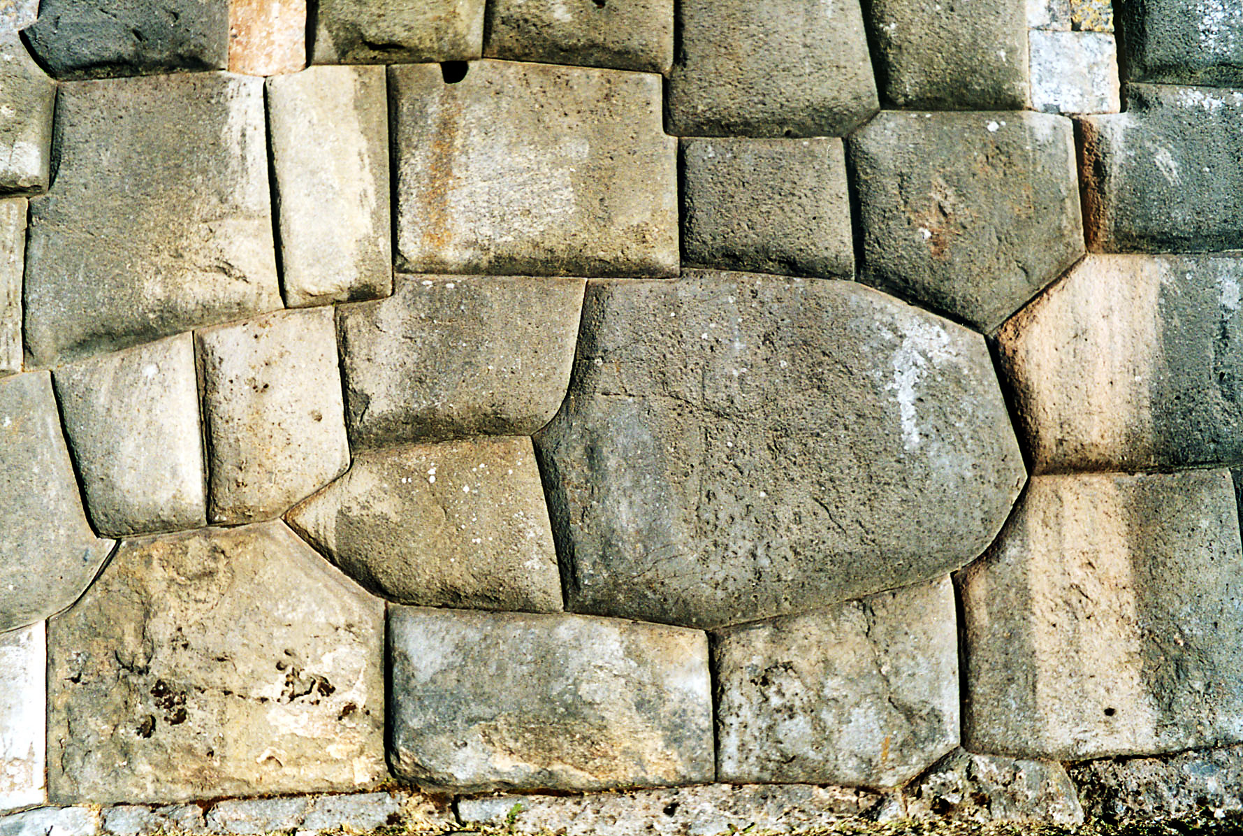 Sacsahuamán (Sacsayhuamán), Cusco, Peru. The photo was taken in June 2002 by Håkan Svensson (Xauxa).